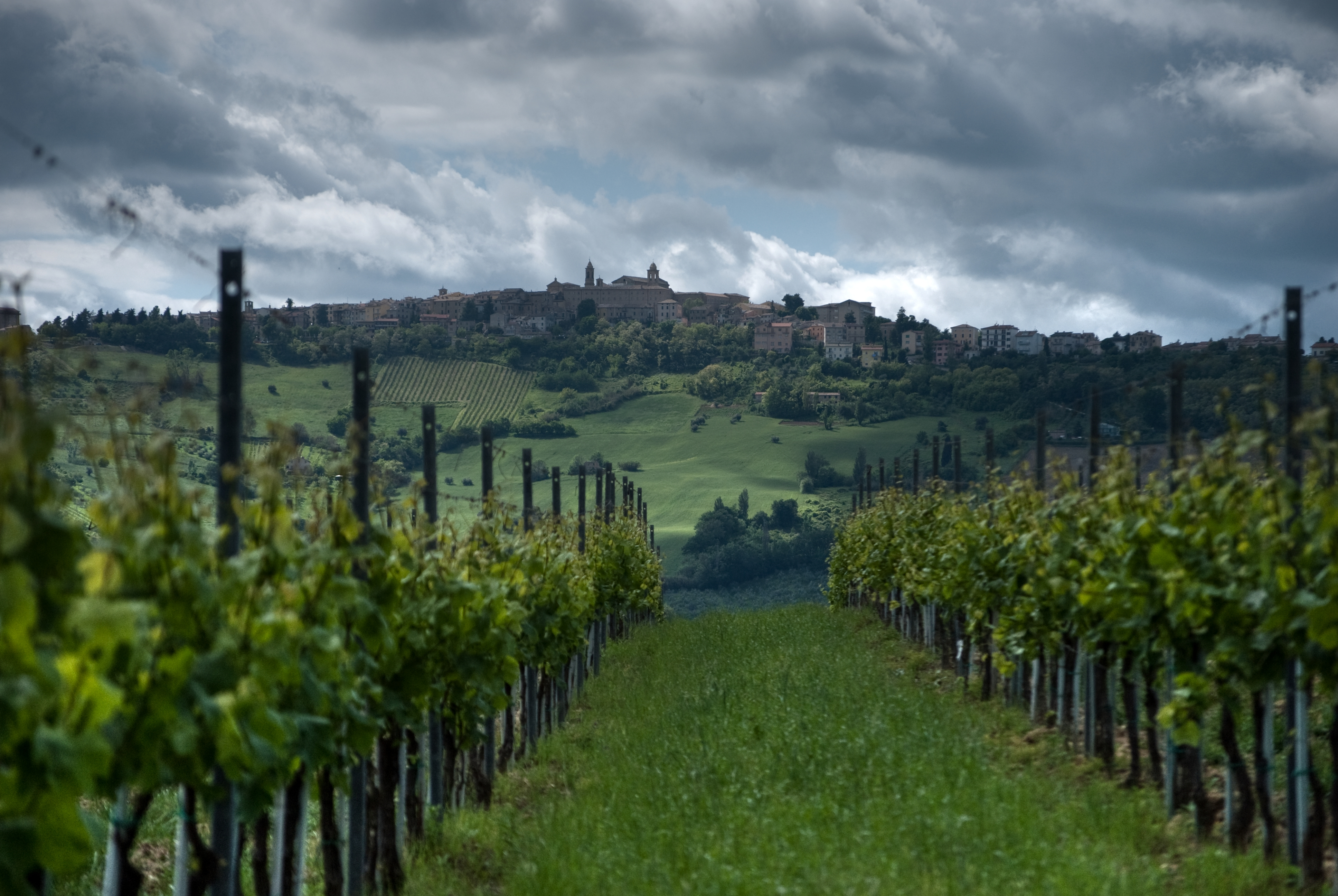 Verdicchio vines growing in Cupramontana, in Marche region of Italy